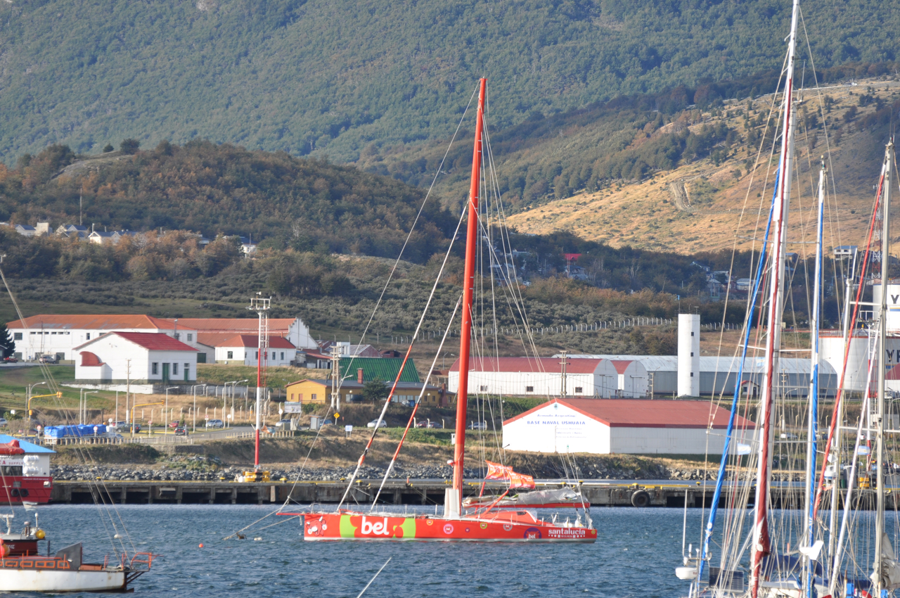 Groupe Bel (Open 60') in Ushuaia during the Barcelona World Race 2010-2011